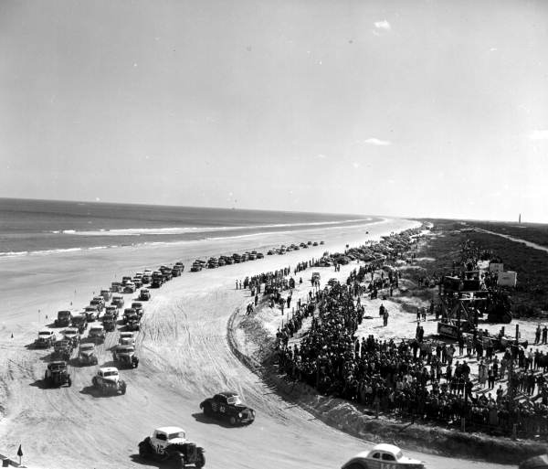 Persistent URL: Local call number: C015971 Title: Racing at Daytona Beach, Florida Date: February 1952 Physical descrip: 1 photoprint - b&w - 4 x 5 in. Series Title: Department of Commerce Collection Repository: State Library and Archives of Florida, 500 S. Bronough St., Tallahassee, FL 32399-0250 USA. Contact: 850.245.6700.